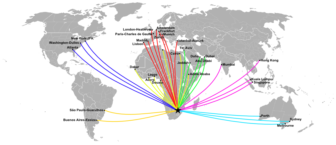 Joburg Long Haul